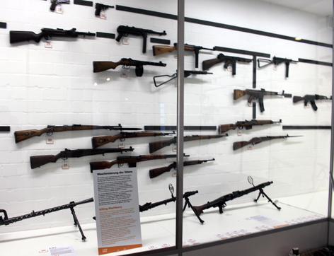 Der Handwaffenstammbaum im Deutschen Panzermuseum Munster.